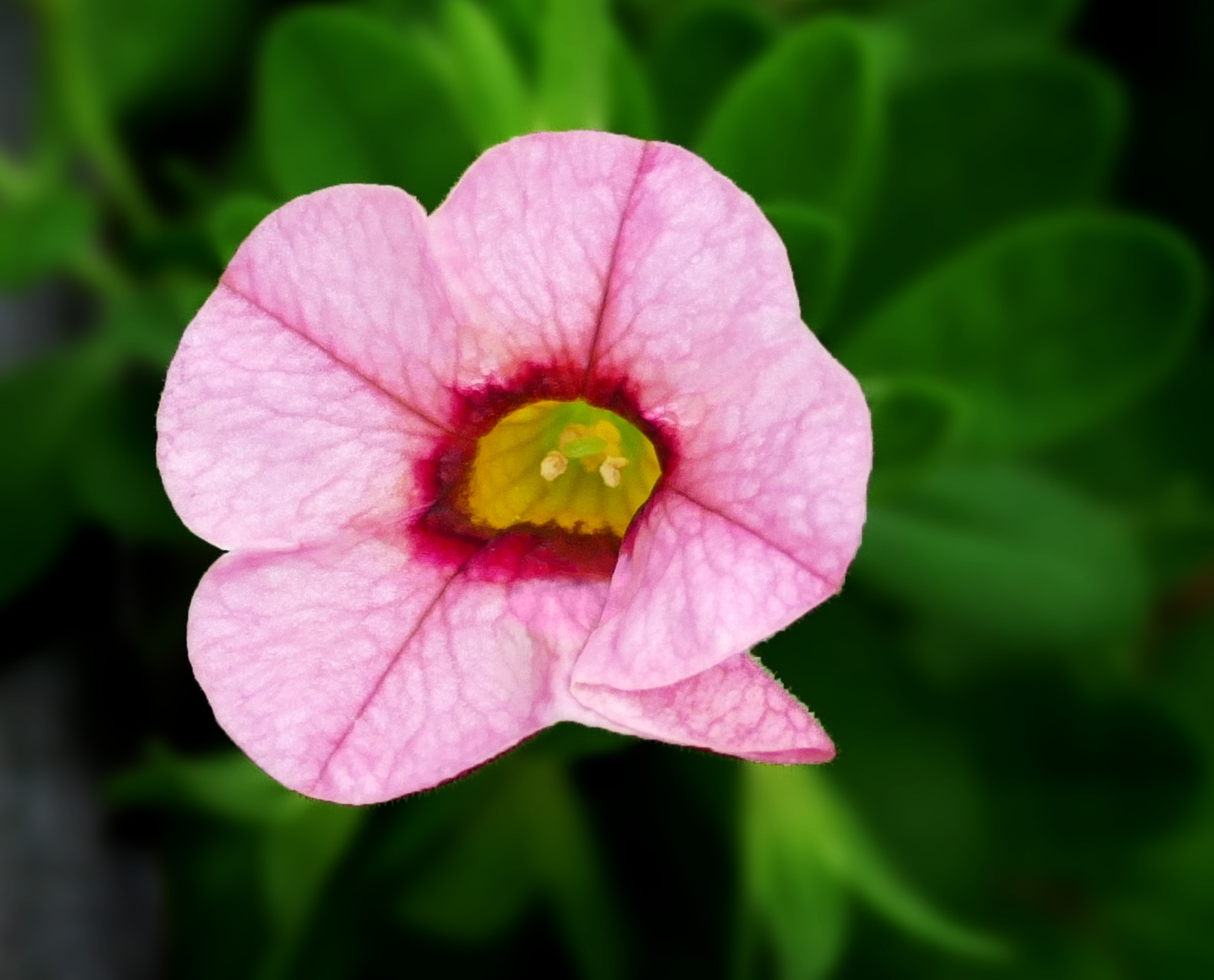 Calibrachoa hybrid 'Superbells Strawberry Punch' blossom is about 1" across